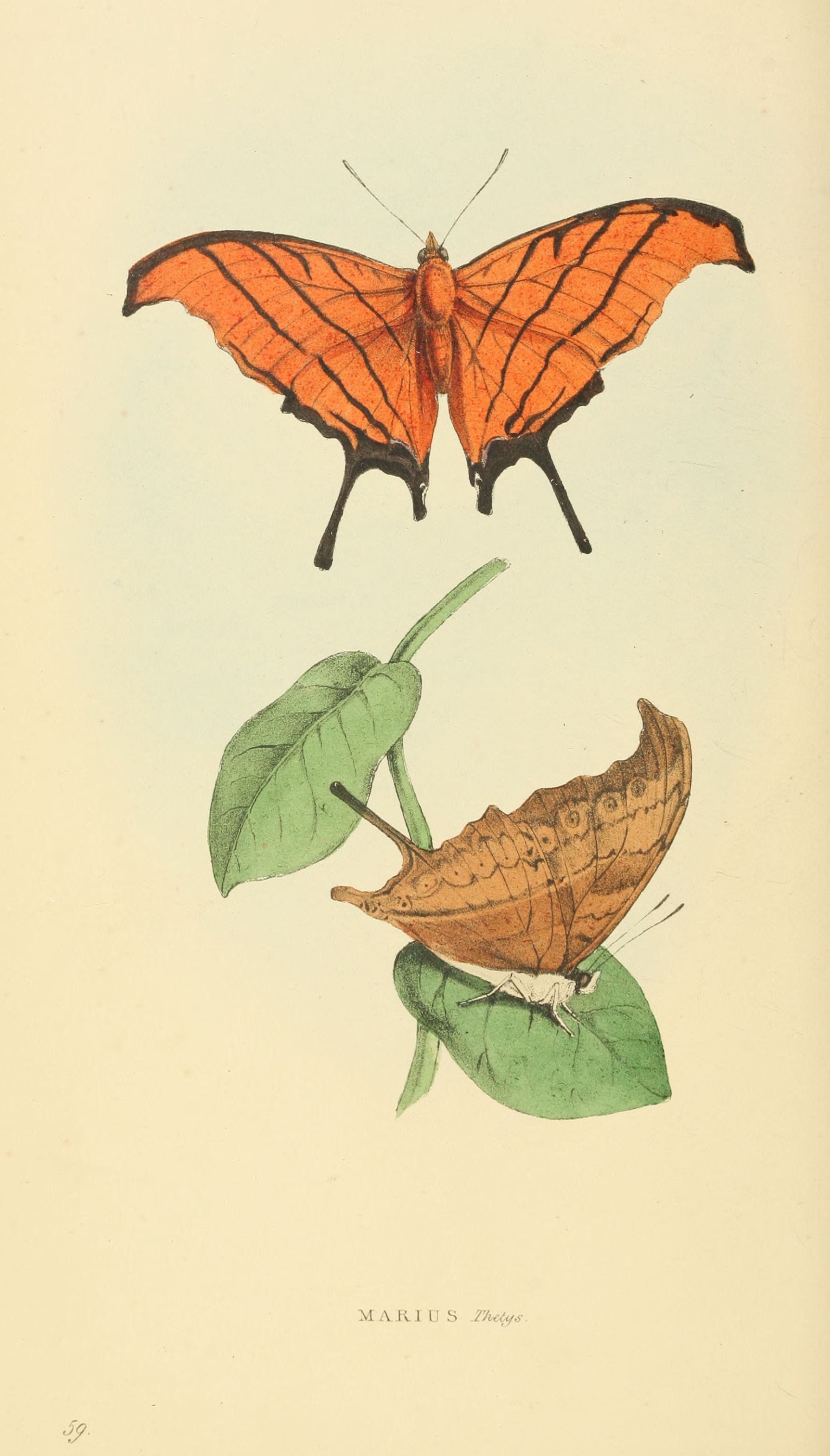 Plate from Zoological illustrations, Volume 2, 2nd series. Marius Thetys = Papilio Thetys Fabr. Accepted as Marpesia petreus damicorum[1]